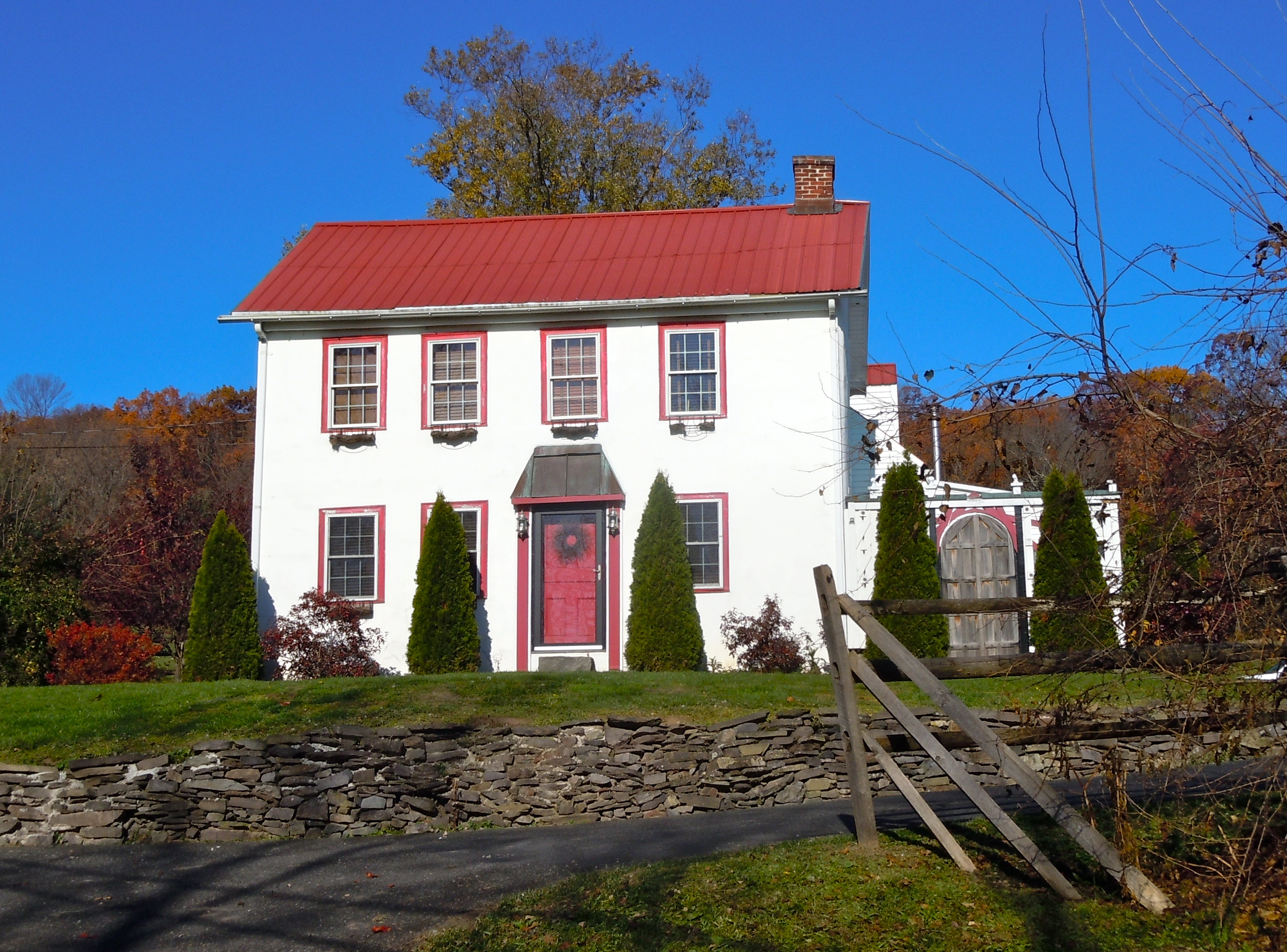 Landis Homestead on the NRHP since October 10, 1973 Southwest of Tylersport off Pennsylvania Route 563 on Morwood Road, Tylersport, Montgomery County, Pennsylvania. A few miles north of Harleysville.